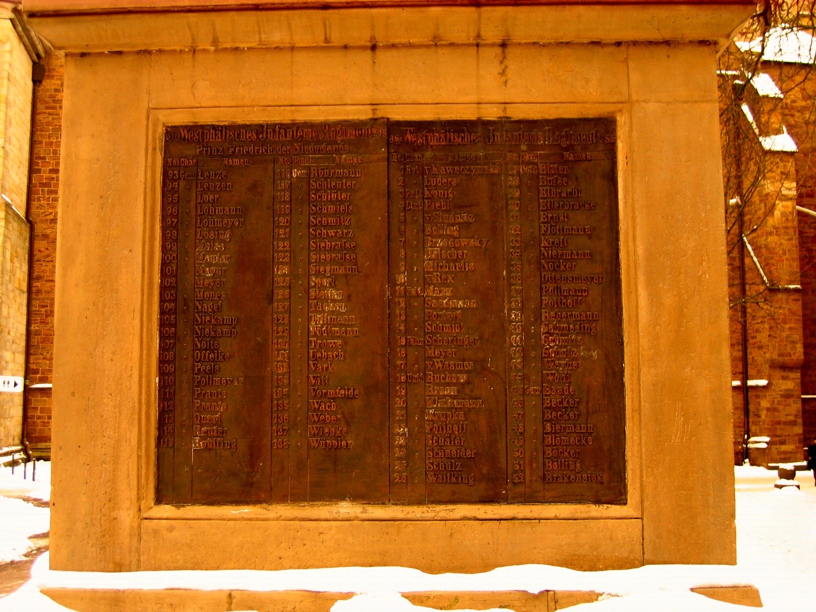 Old government building in Minden, District of Minden-Lübbecke, North Rhine-Westphalia, Germany.